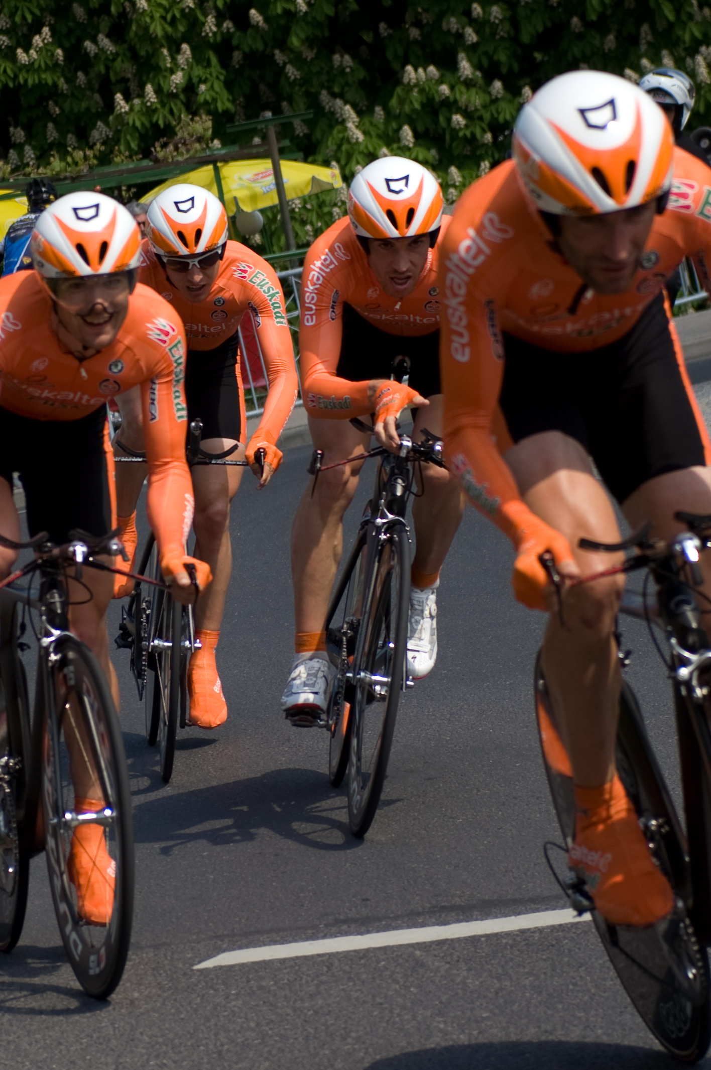 Tour de Romandie 2009 - 3rd stage - team time trial